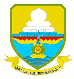 Coat of Arms of Jambi, Indonesian province of South Sumatra.